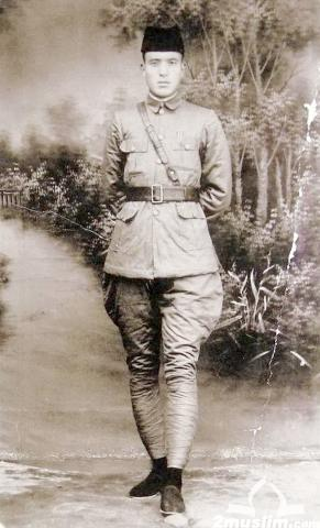 Republic of China Chinese muslim General Ma Zhongying. Attended Whampoa Military Academy , and commanded the 36th division.